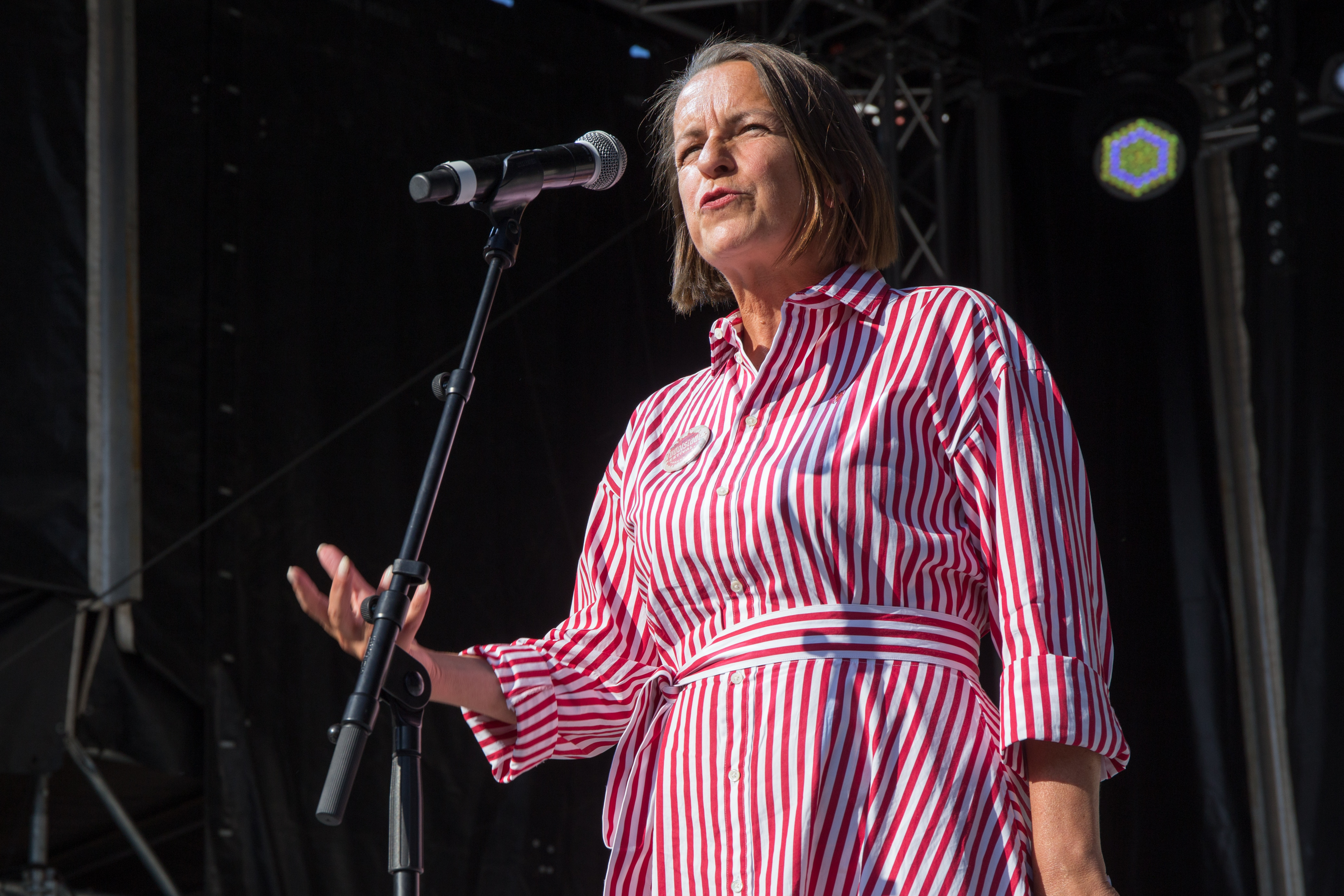 Permanent secretary Babette Winter (SPD) during the opening ceremony of the Rudolstadt-Festival 2019.